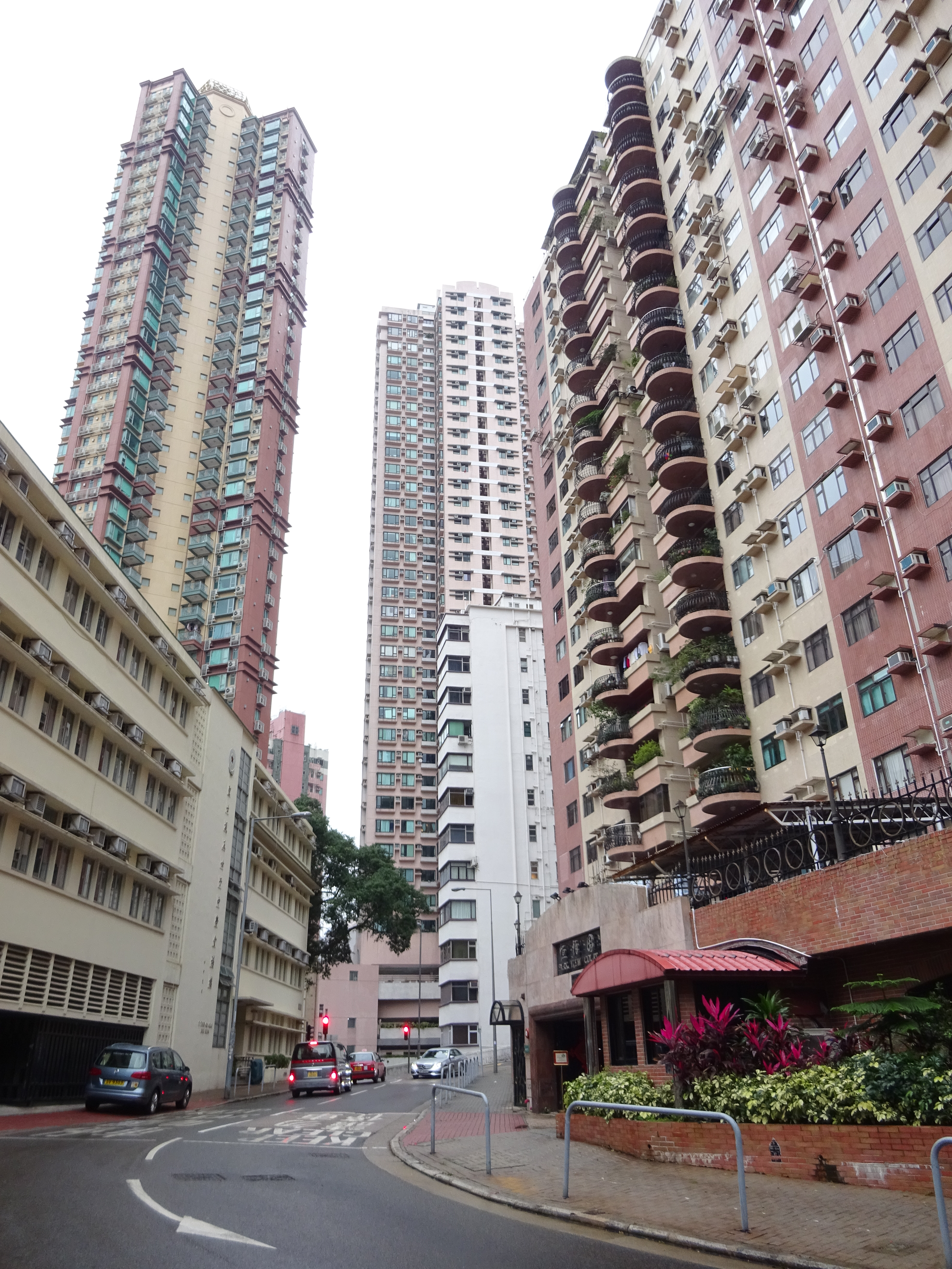 香港島半山區列堤頓道 - Lyttelton Road, Hong Kong